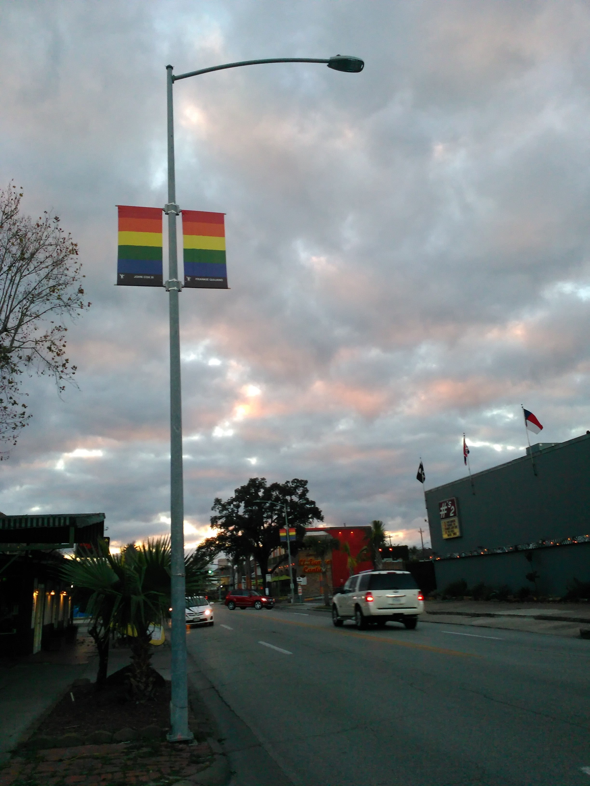 Rainbow flag banners in Montrose